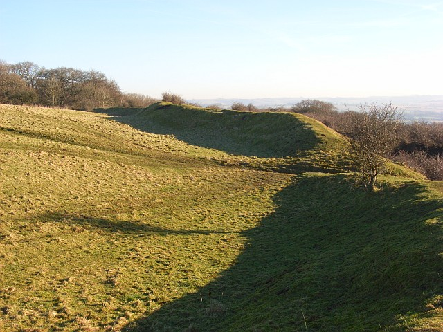 Fosbury Looking along the inner wall of the Iron Age hillfort towards Oakhill Wood. In the foreground is a breach in the bank where a farm track now enters the middle of the fort.